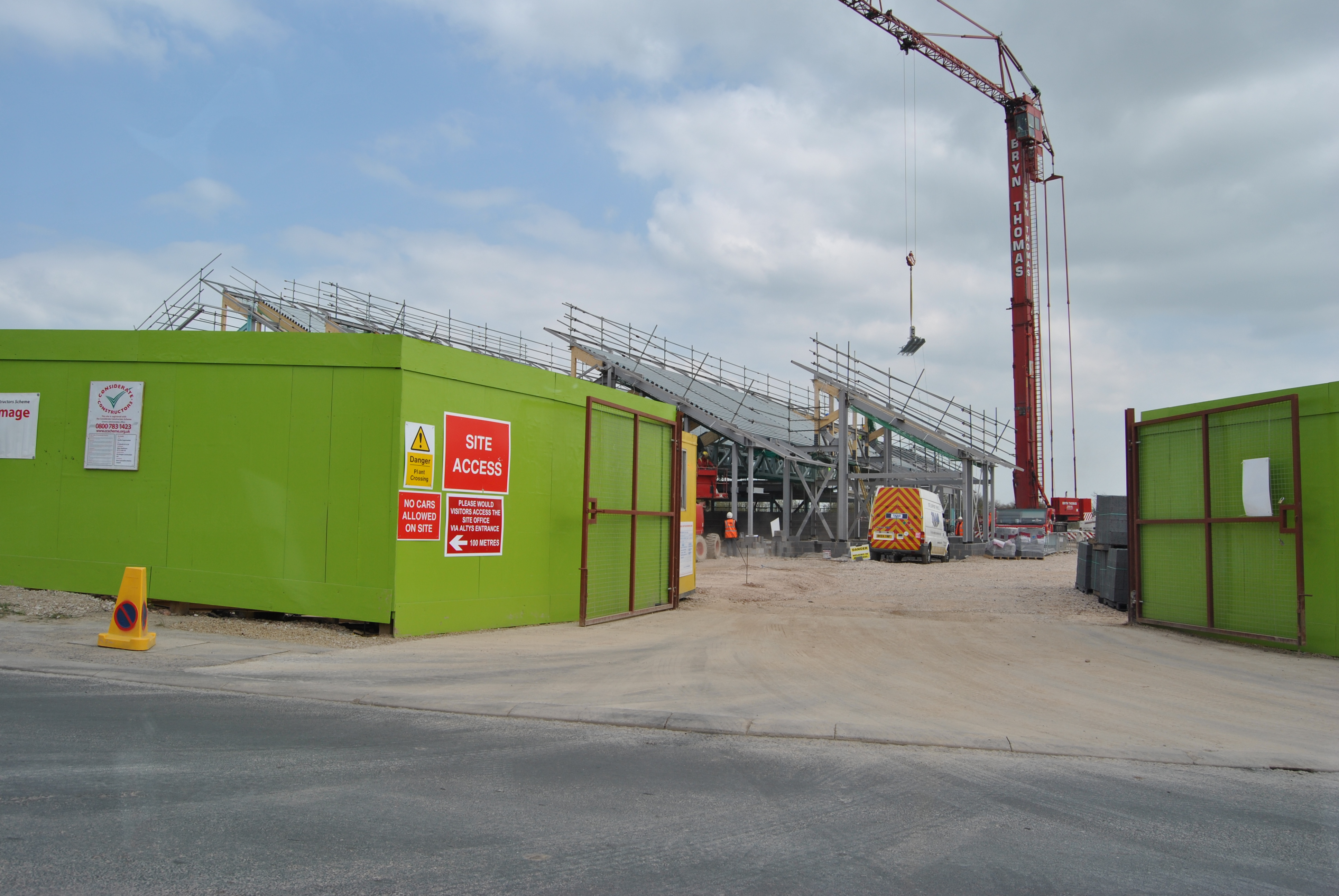 A Photo of the Booths Store underconstruction in Hesketh Bank, West Lancashire